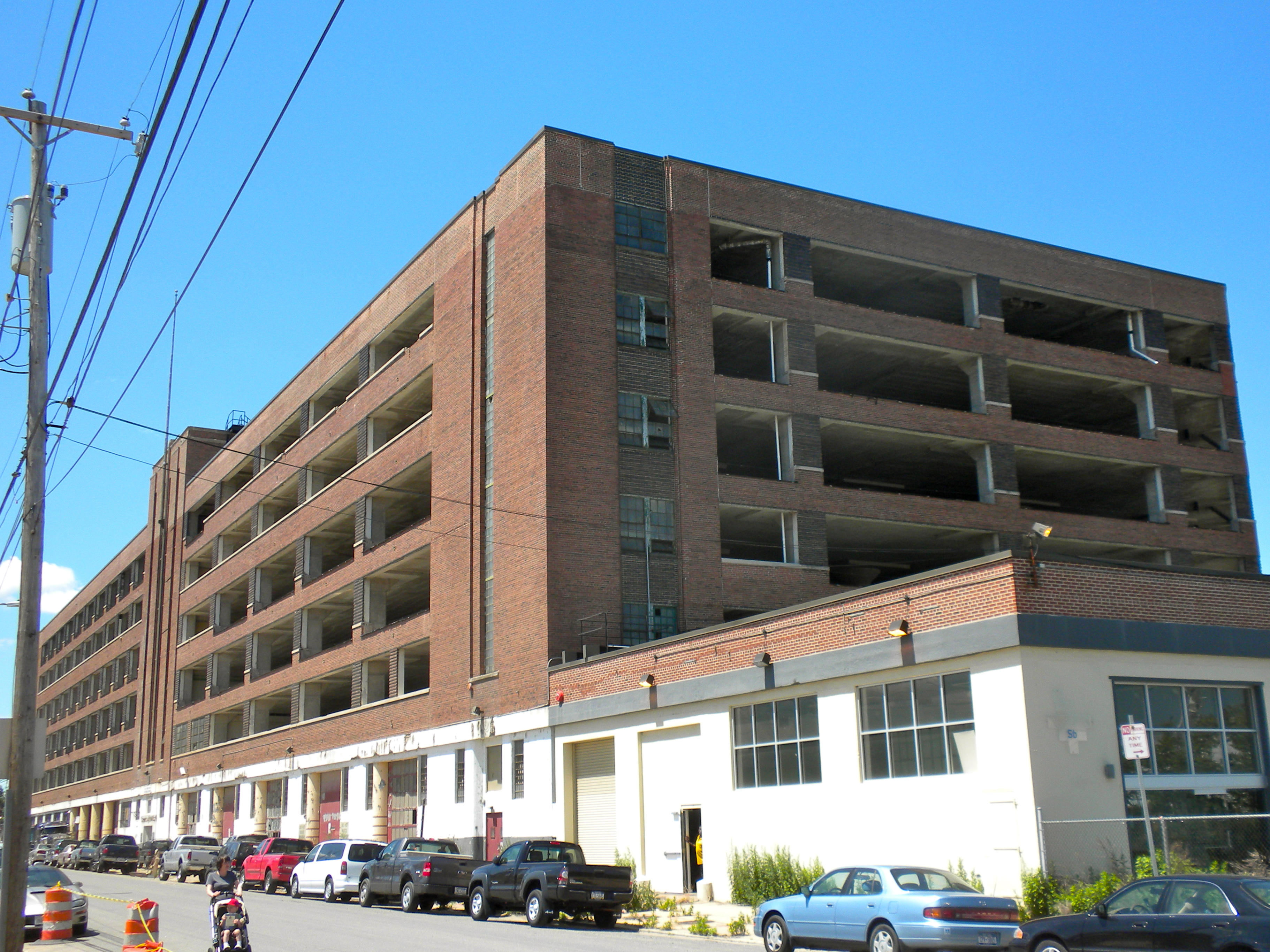 Marine Corps Depot of Supplies, Schuykill Warehouse on the NRHP since November 12, 2004. At 700–734 Schuykill Avenue near the Schuykill River in south Philadelphia. Date on building is 1941, glass gone from windows - looks like a big parking lot now. JFK Job training facility in the central part of the building. This is one huge building, about 2 blocks long.